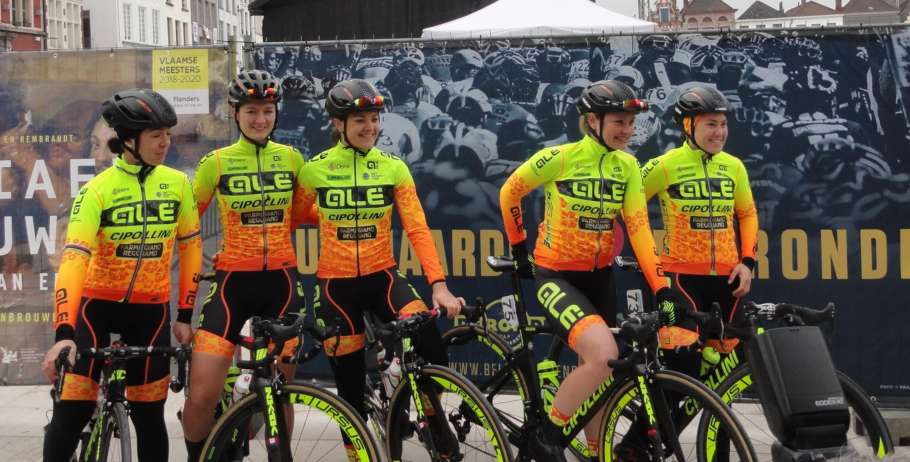 Alé Cipollini at start of RVV 2018.